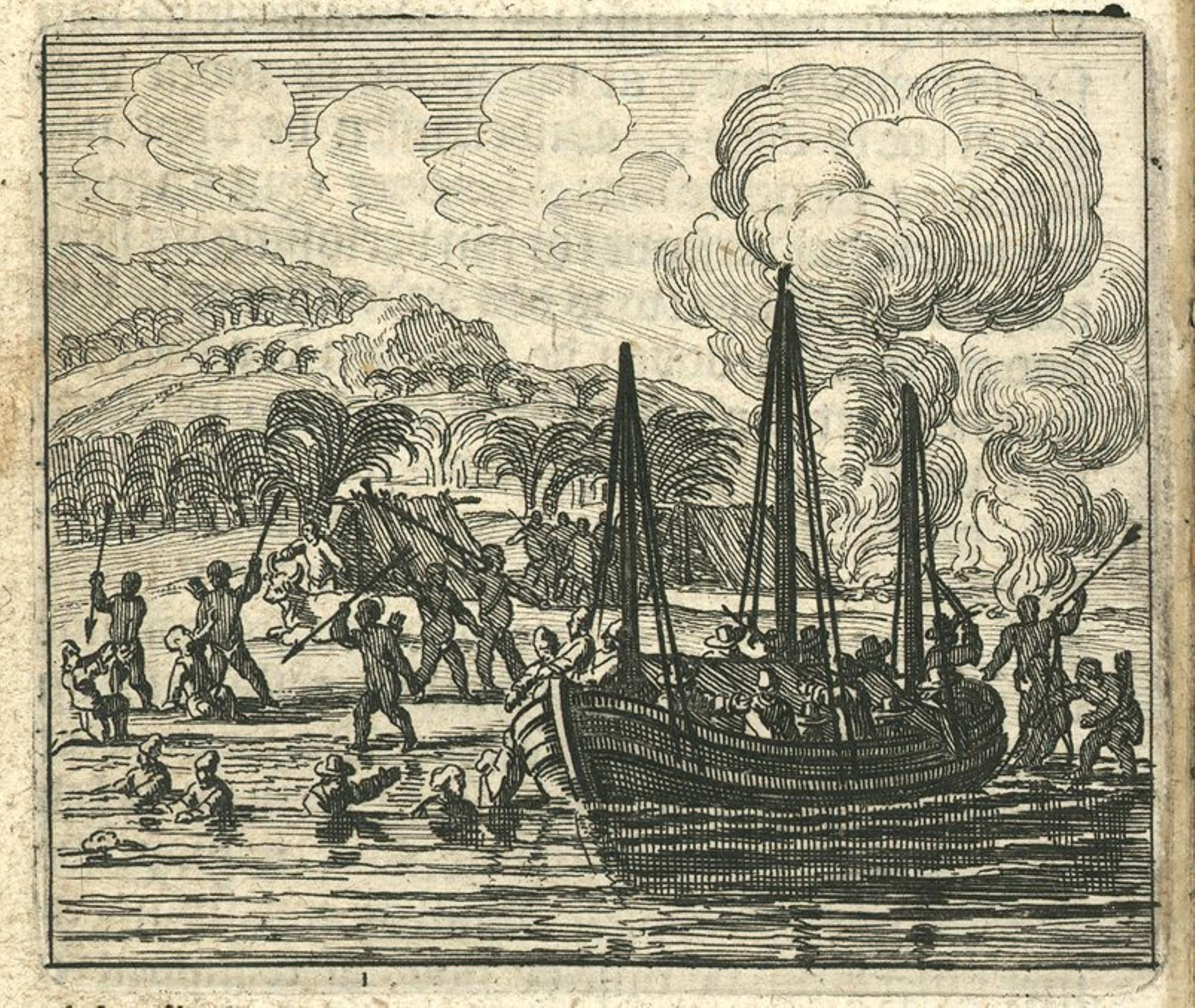 Sumatrans attacking shipwrecked sailors. This picture accompanies the journey of Bontekoe, whose vessel exploded.